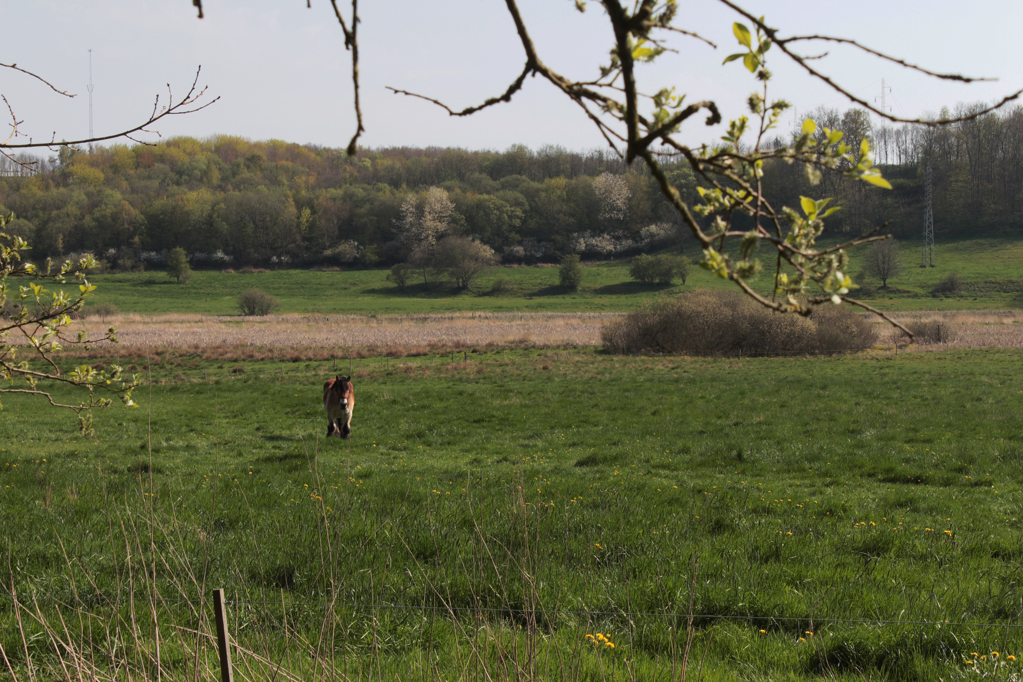 The sacrificial moor at Illerup find in Denmark. Weapons and equipment from about 1.000 defeated warriers mainly from West-Norway were broken and thrown into what was at the time a lake.